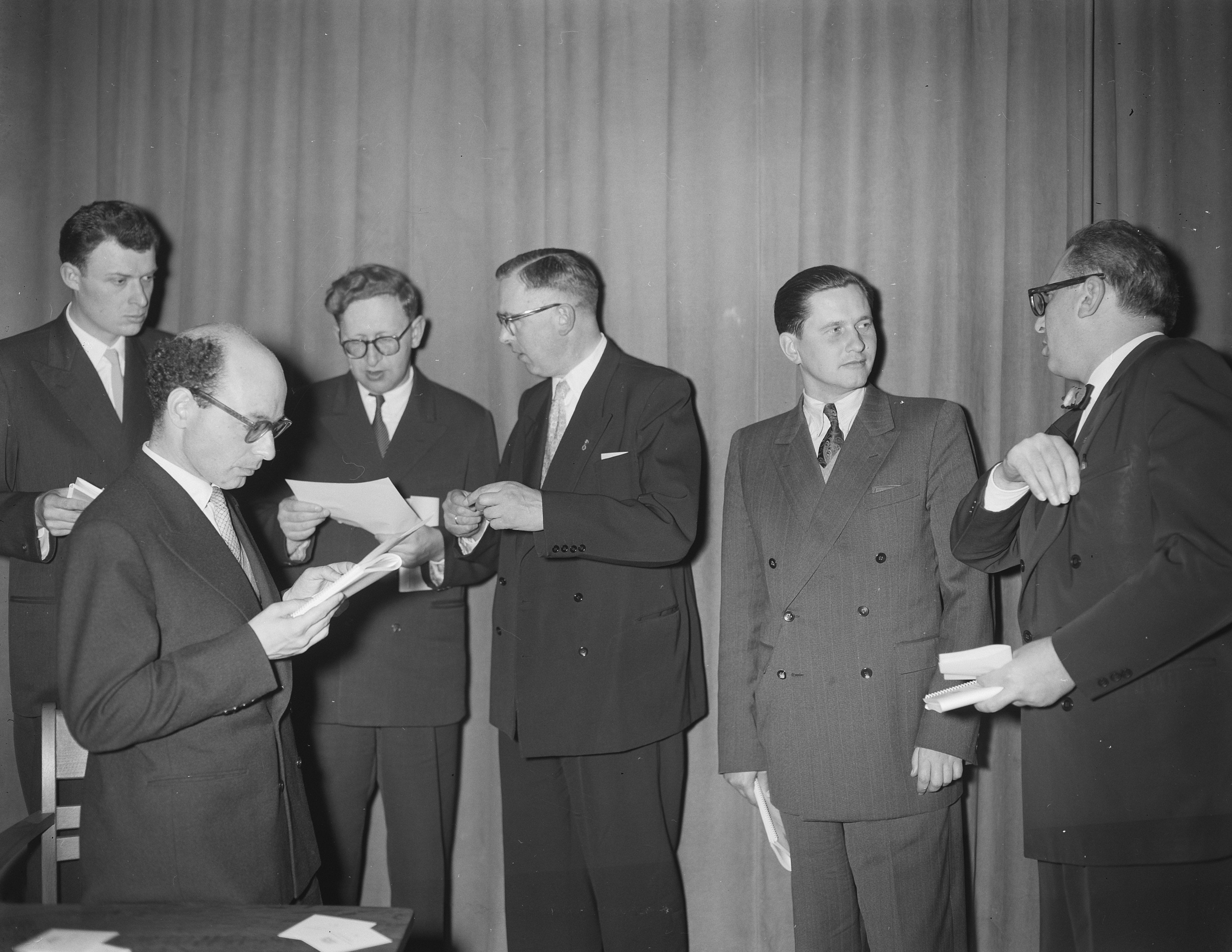 Left to right: Miroslav Filip, David Bronstein, Vassily Smyslov, Max Euwe, Paul Keres, Herman Pilnik